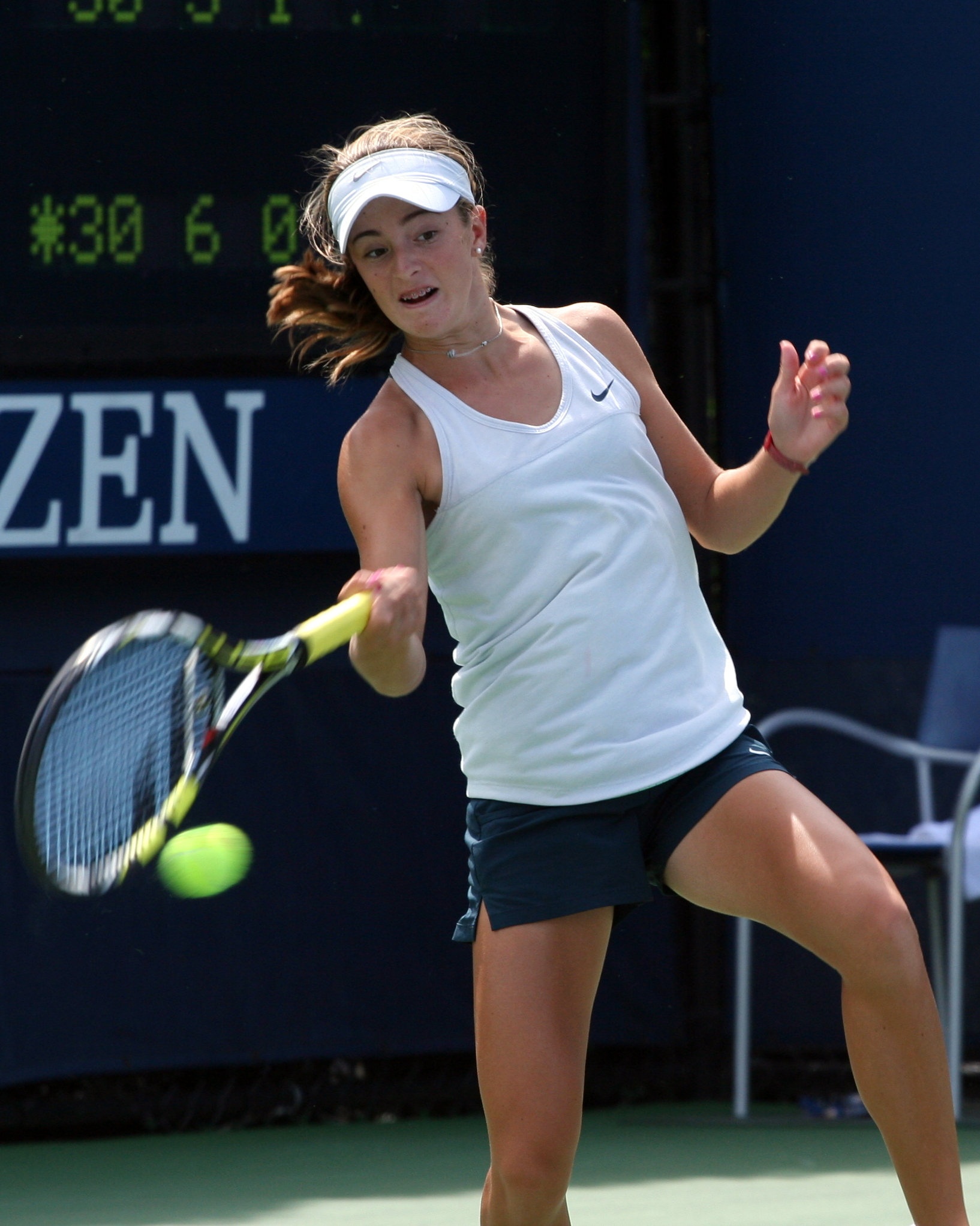 CiCi Bellis at the 2013 US Open